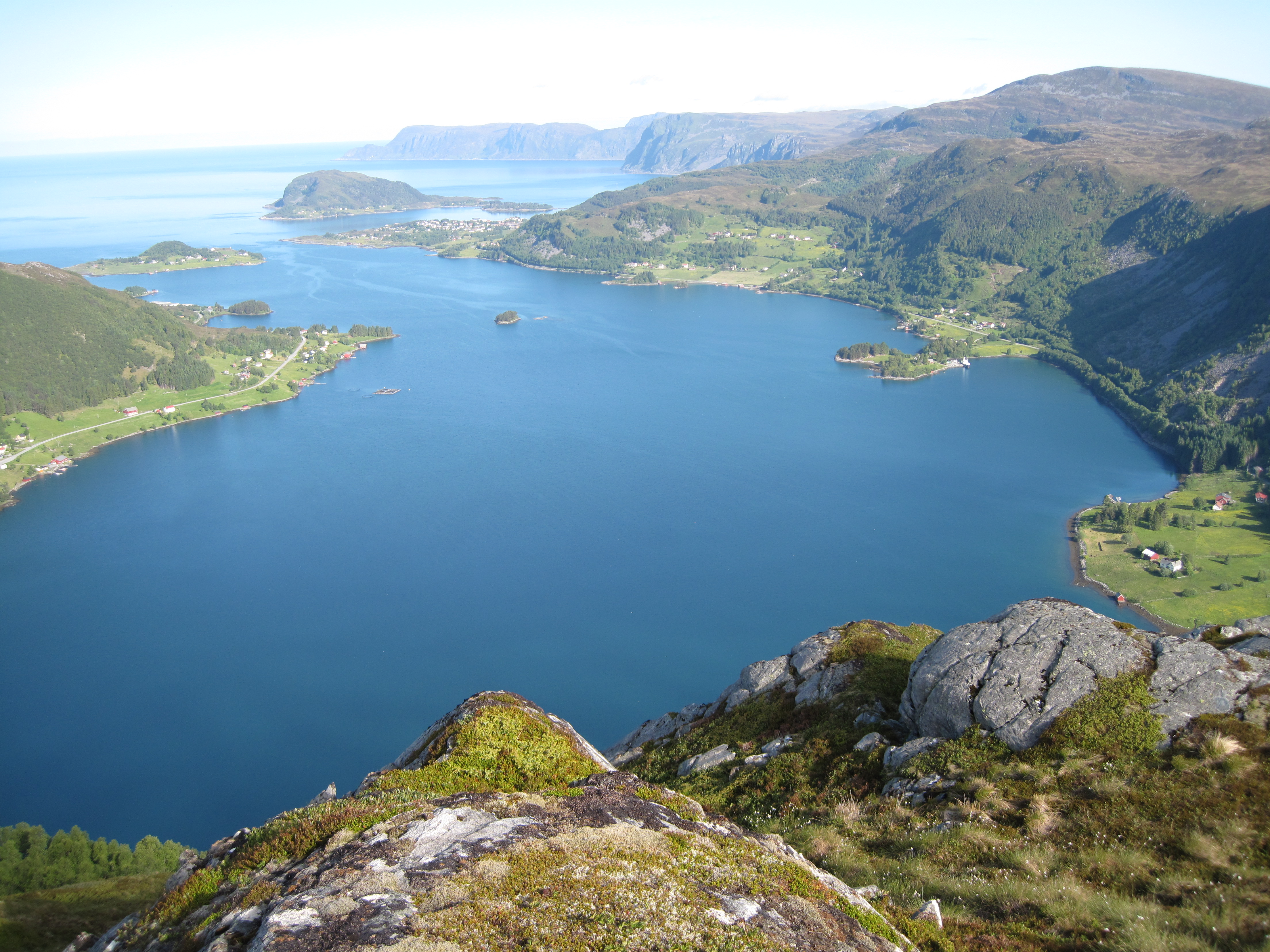 View over Moldefjord to Selje, Selja and Stad.